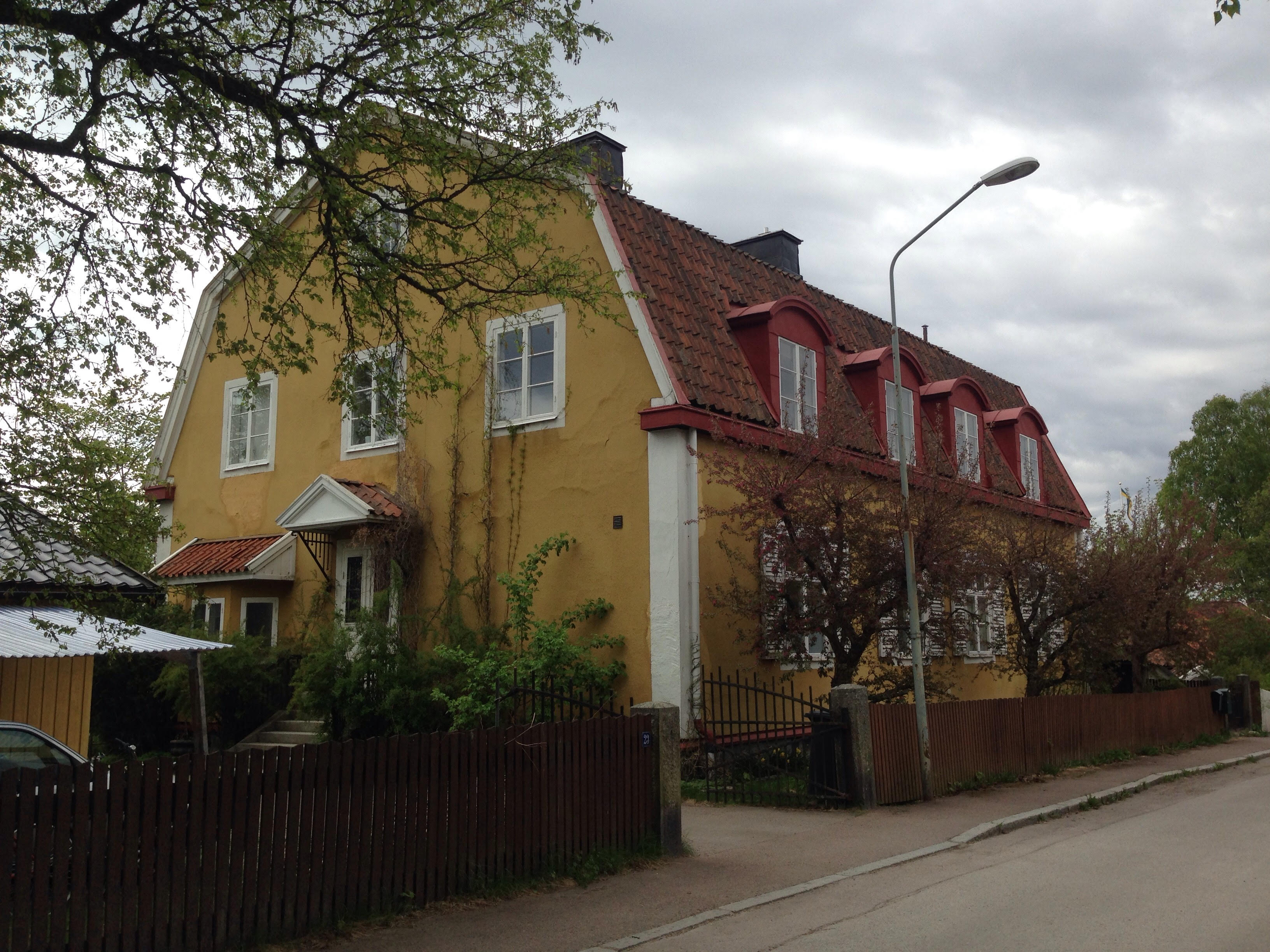 The house Valborg Olander lived in 1913-1924 in Falun, Sweden